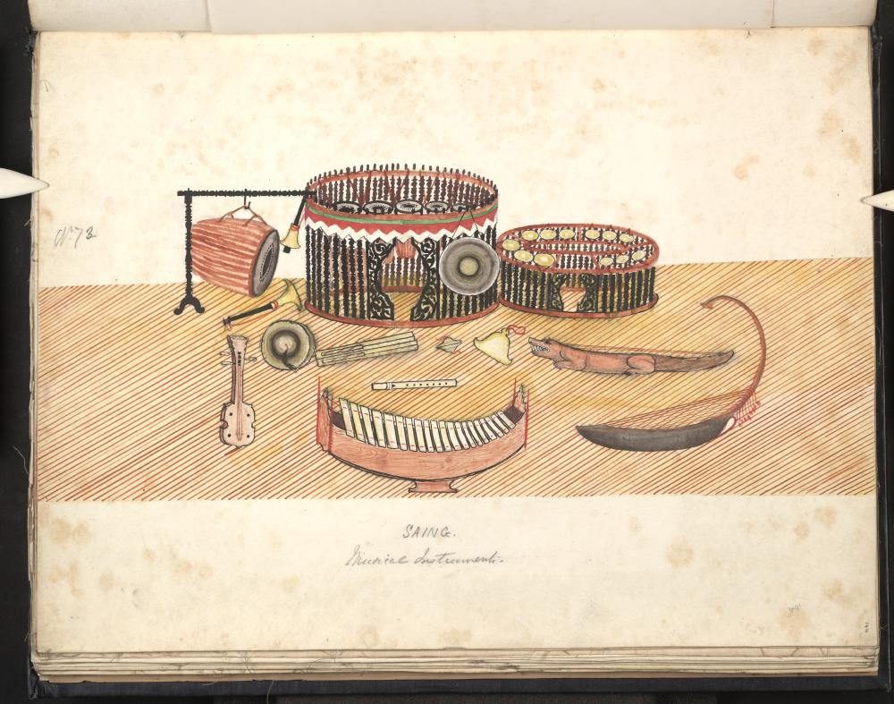 Watercolour painting by an unknown Burmese artist depicting 19th century Burmese life. Text: SAING Musical instruments. Text extracted from caption: 'The largest instrument is the "Saing-waing"; a circular frame of wood with a series of small drums suspended inside. A similar instrument is the "Chyee-waing," but in this the drums are of brass or bell metal, beautifully tuned. Between these two instruments is suspended a "Moung" or Gong. Under the frame and close to a bid drum is a Hni = flagolet. Beneath is a second "Hni" is a pair of cymbals "Yan-gwin", of brass; to the left is a "Ta-yaw" or violin with three silk strings played with a bow as in Europe; on the other side is the "Wah-lek-kote" = bamboo-clappers. Further on is a pair or metal cups or castanets "Than-gwin." Then a kind of solid triangle "Kyee-zee," shaped like a section of a Pagoda". Under these is the "Paruay" or flute, blown like a piccolo from the top. The two stringed instrument at the side of the "Mee-gyoung" i.e. the Alligator, with three strings, and the Soung or Harp with ten strings. The large instrument like a harmonium, is a "Wah-Pattala." Bamboos of different sizes and thickness are strung upon the cords.'; See [1] for full caption Shelfmark: Ms. Burm. a. 5